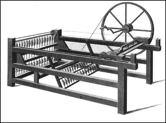 Spinning jenny used in textile mills (Cotton-spinning machinery).